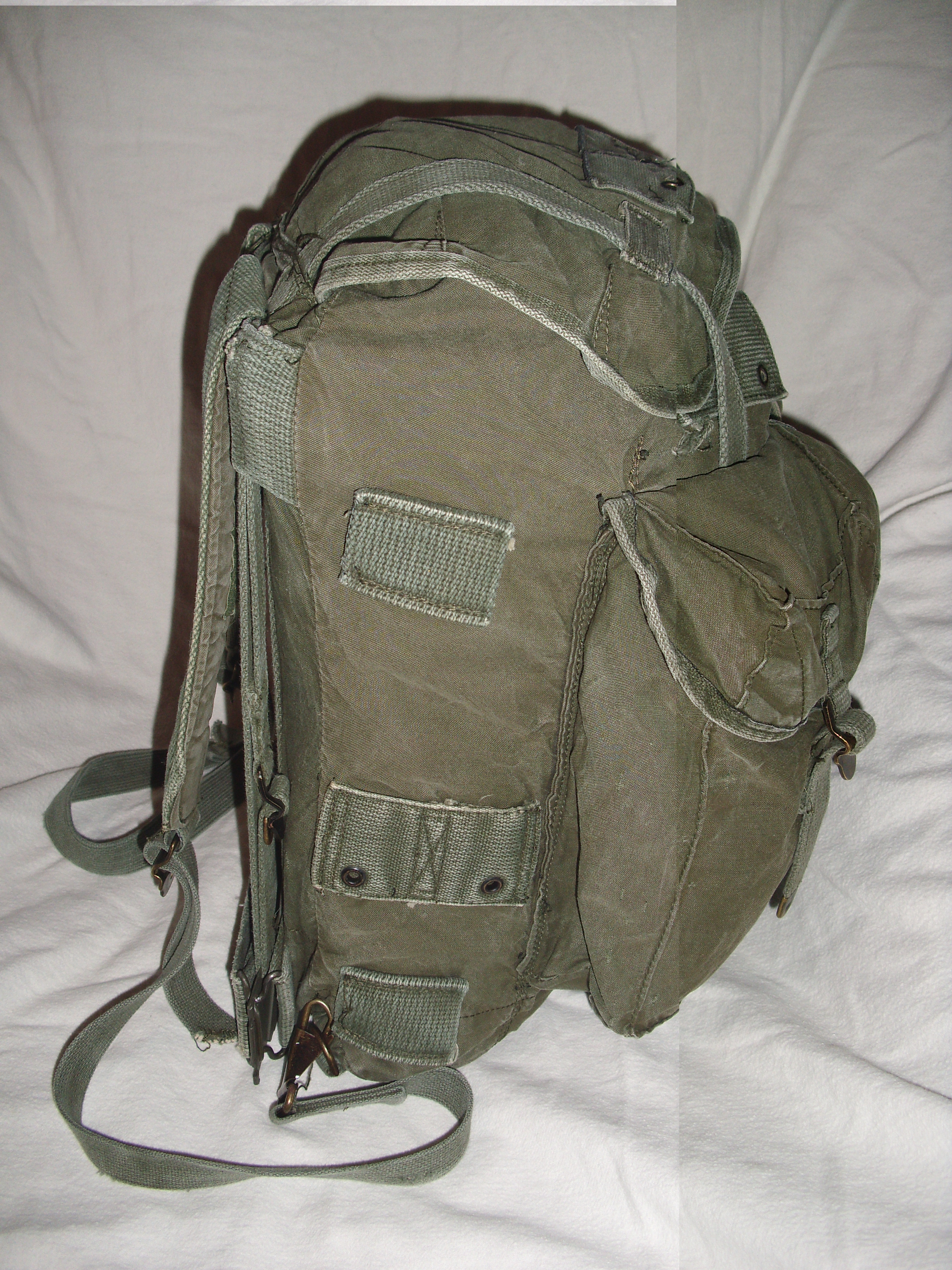 ARVN Rucksack side view